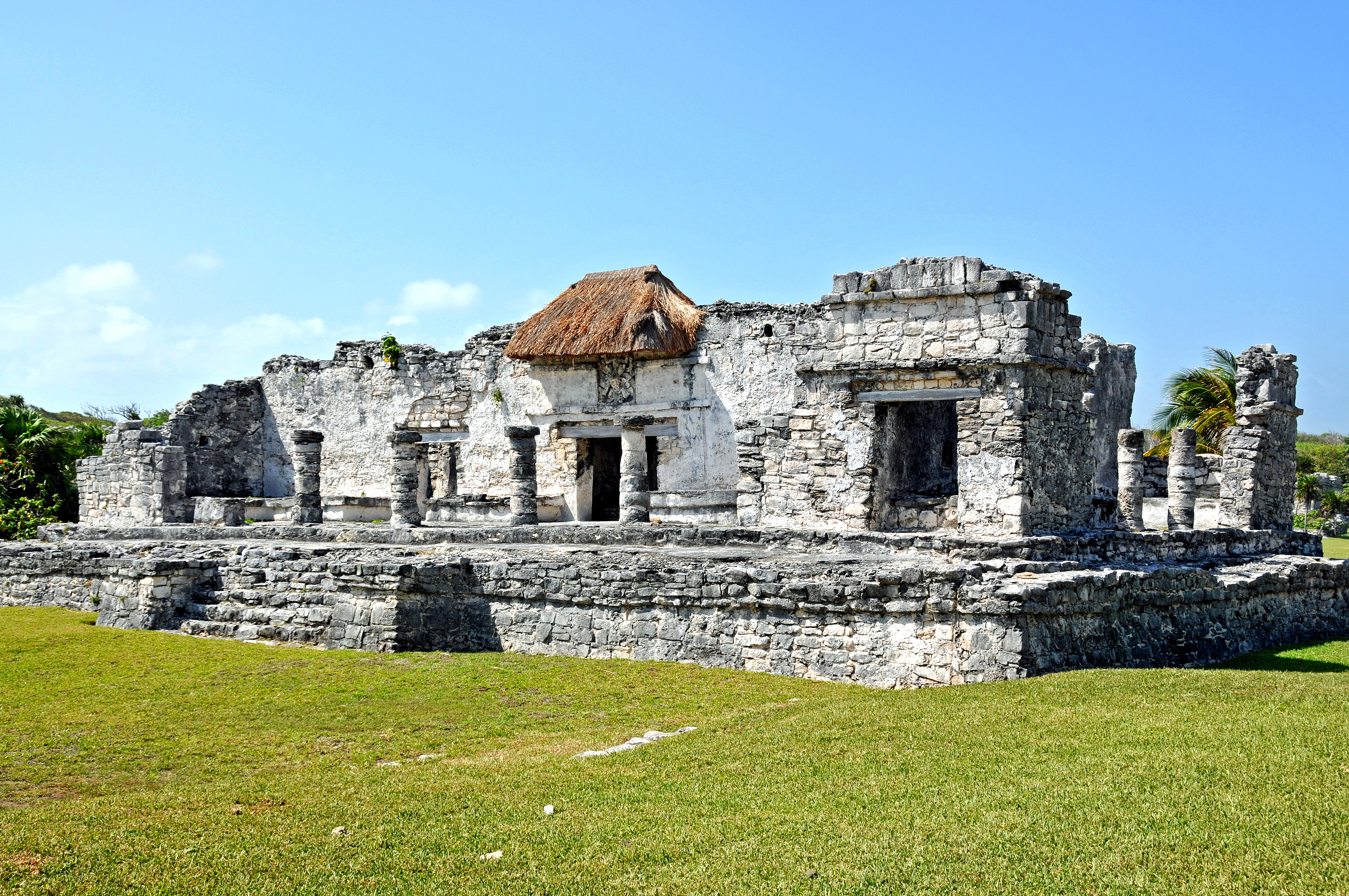 Tulum - Templo del Dios Descendente. House of the Halach Uinic (Palace), served as a residence. There are benches around the walls that were used as seats and probably as beds. At the back of the building is an area where the family held religious ceremonies. This site is badly deteriorated, but contains a fine stucco carving of a descending god.